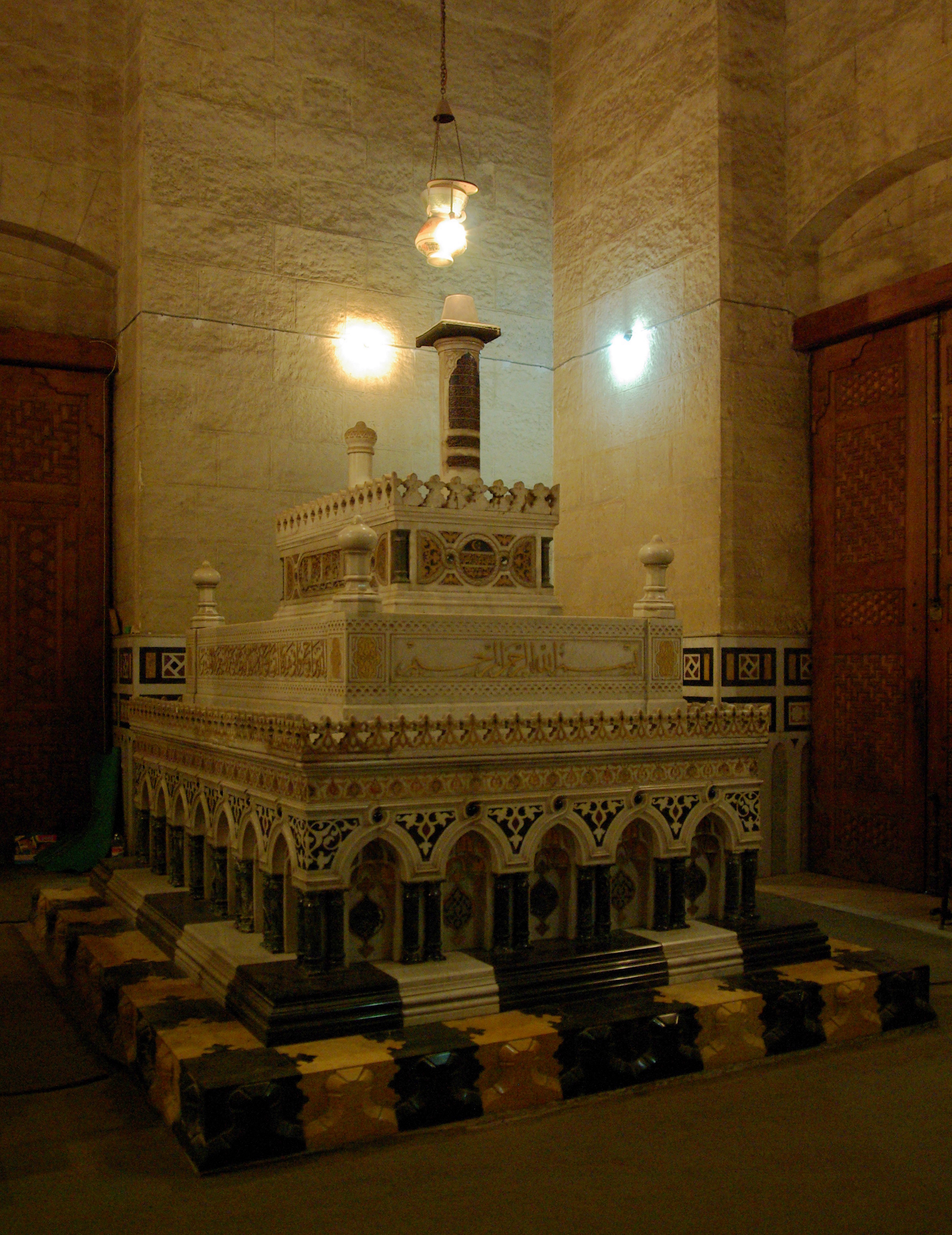 Tomb of Khedive Isma'il Pasha of Egypt (1830–1895), located in the Rifa'i Mosque in Cairo.